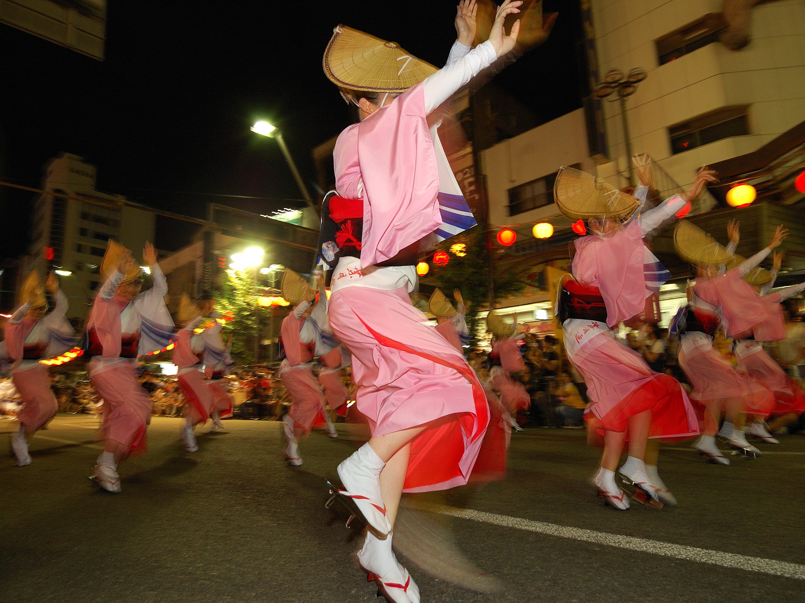 Awa Odori in Tokushima, Japan [2008].